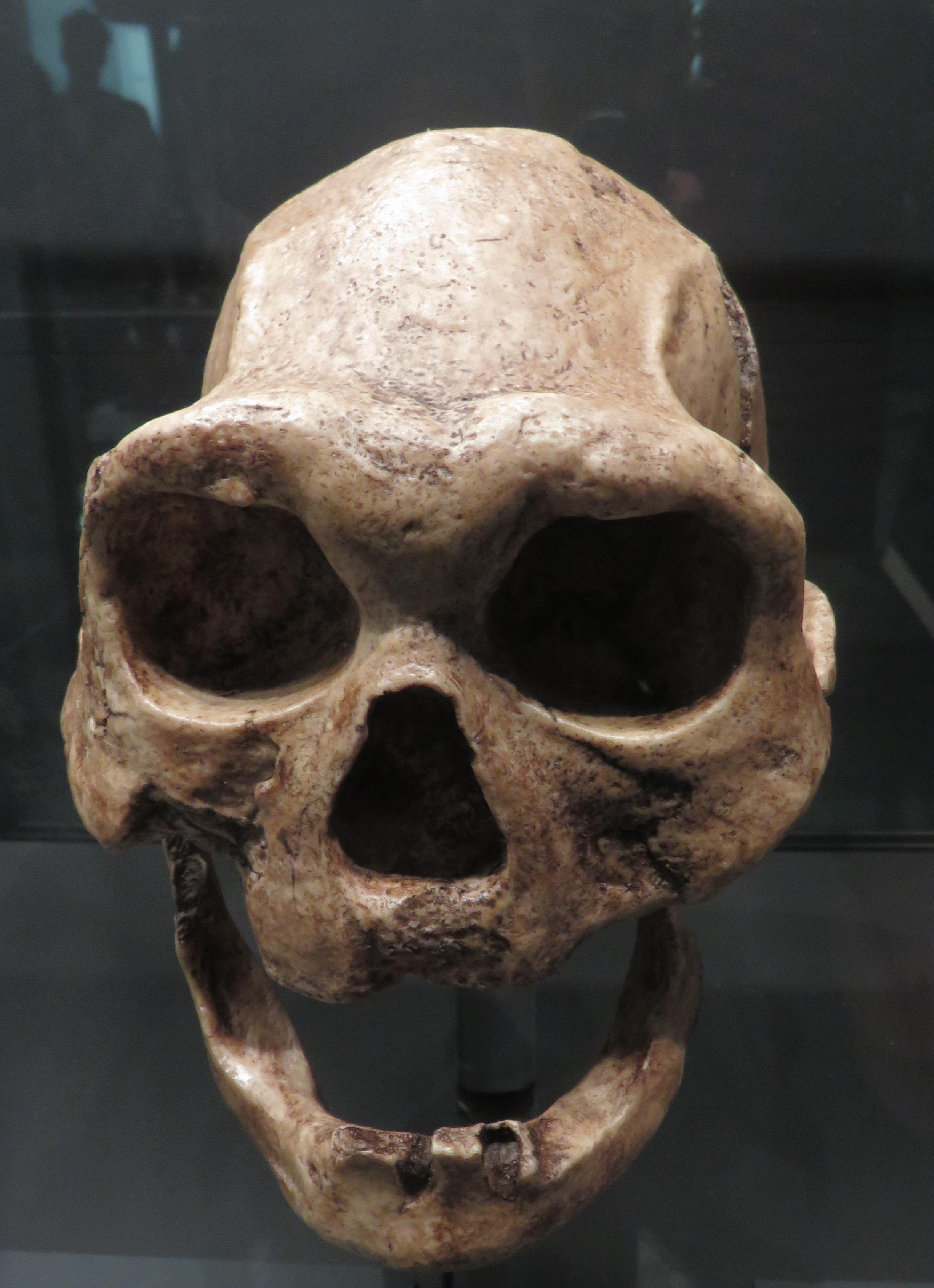 Dmanisi cranium D 3444 + lower jaw D 3900 (= Skull 4, Replika)